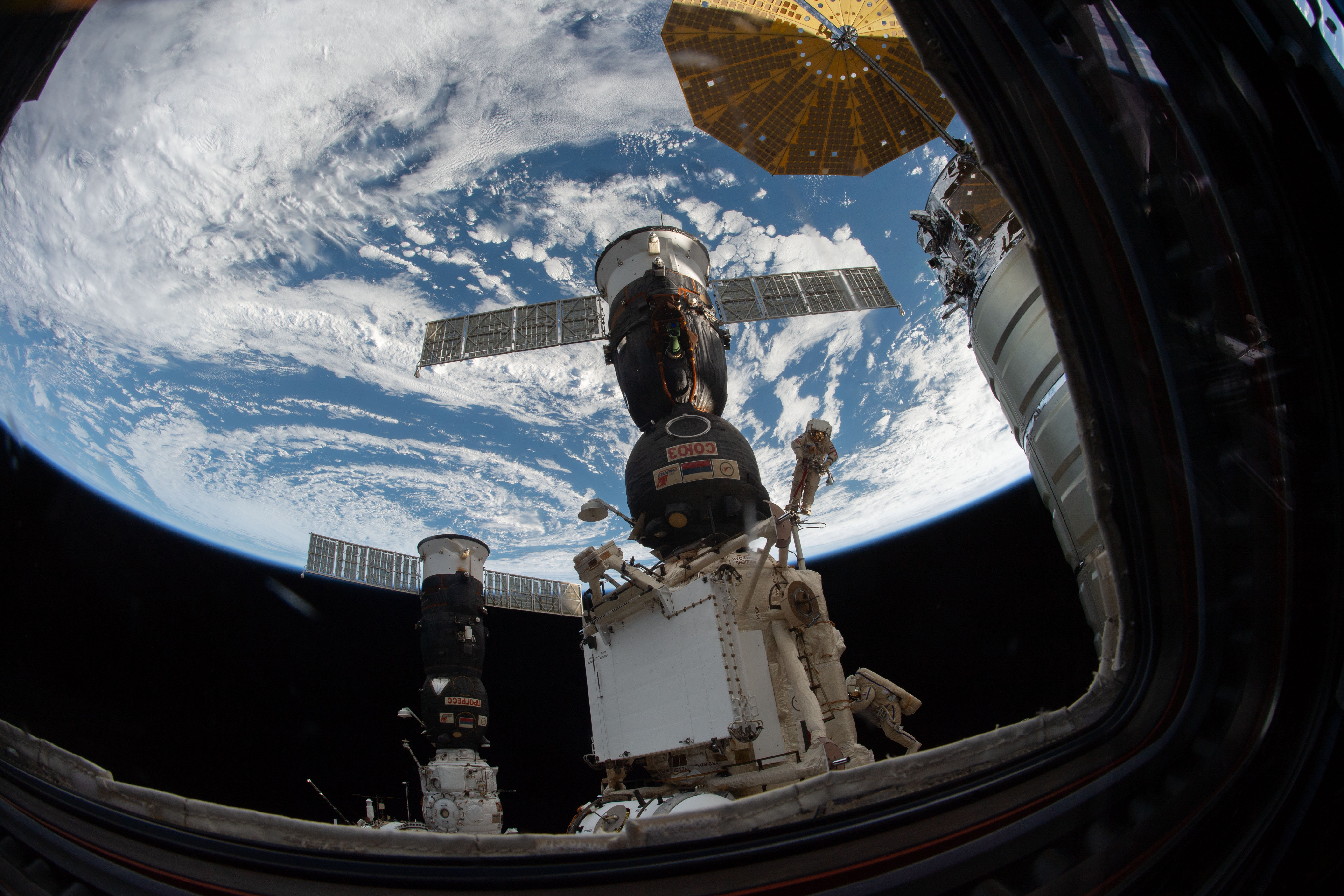 An Expedition 57 crew member inside the cupola photographed Russian spacewalker Oleg Kononenko (suit with red stripes) attached to the Strela boom outside the International Space Station about 250 miles above Earth to inspect the Soyuz MS-09 spacecraft. During the spacewalk, he and fellow spacewalker Sergey Prokopyev (towards bottom right in the suit with blue stripes) examined the external hull of the Soyuz crew ship docked to the Rassvet module. The area corresponded with the location of a small hole inside the Soyuz habitation module that was found in August and caused a decrease in the space station’s pressure. The hole was fixed internally with a sealant within hours of its detection. During the spacewalk, Kononenko and Prokopyev collected samples of some of the sealant that extruded through hole to the outer hull before heading back inside the Pirs docking compartment and closing the hatch completing a seven-hour, 45-minute spacewalk.